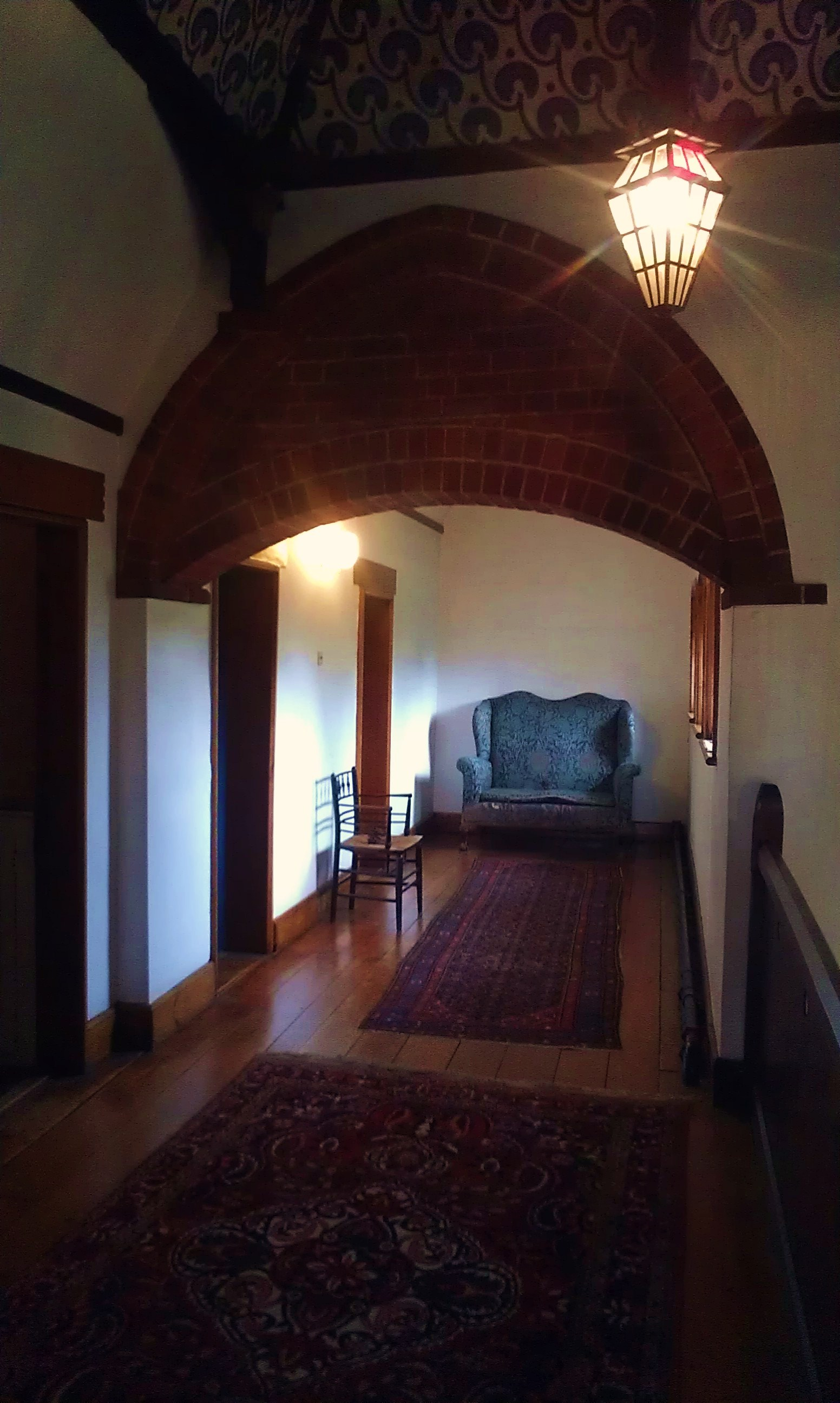 The upstairs hallway at The Red House in Upton, Bexleyheath, Greater London.